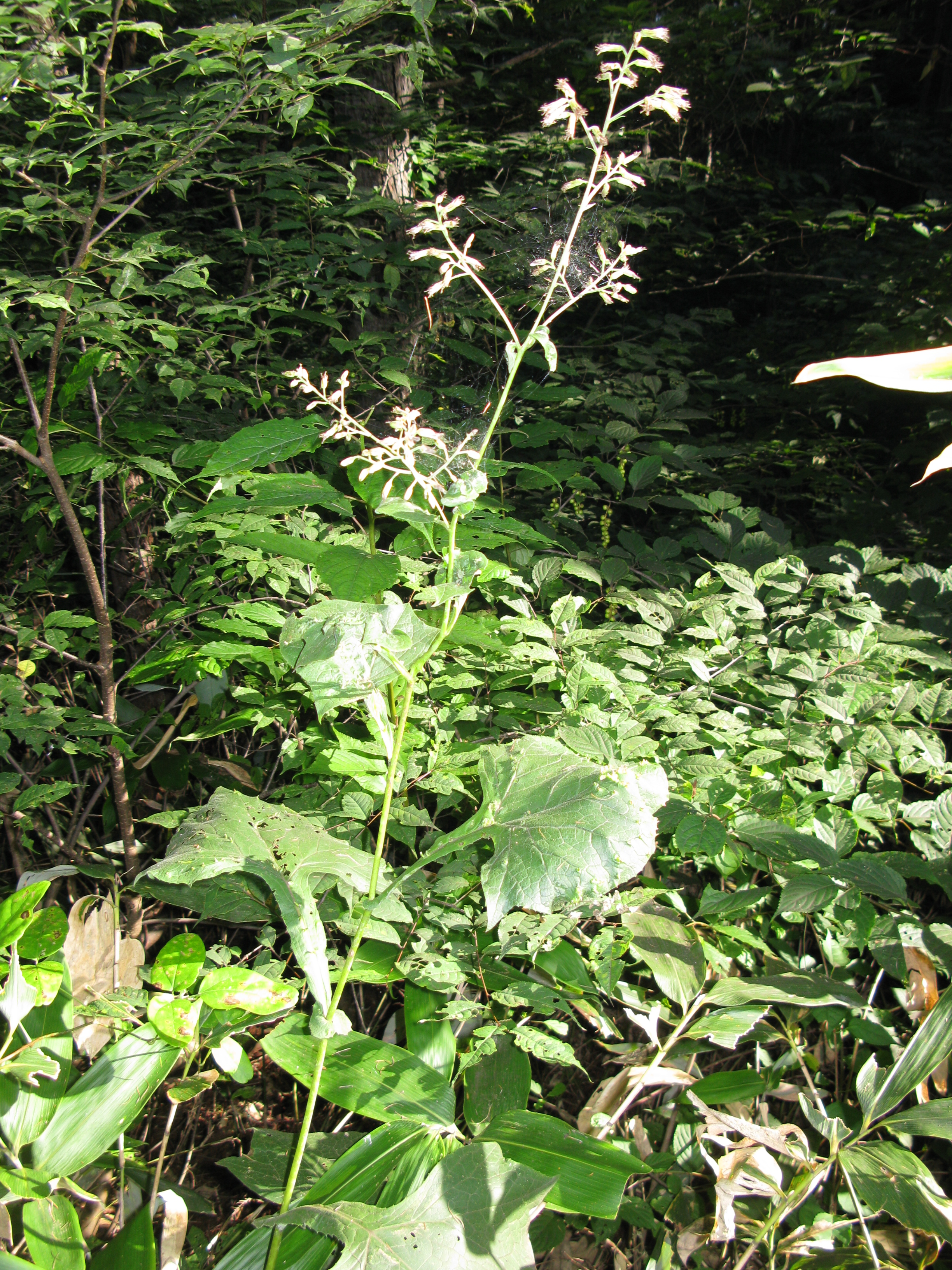 Parasenecio hastatus subsp. tanakae, Aizu area, Fukushima pref., Japan